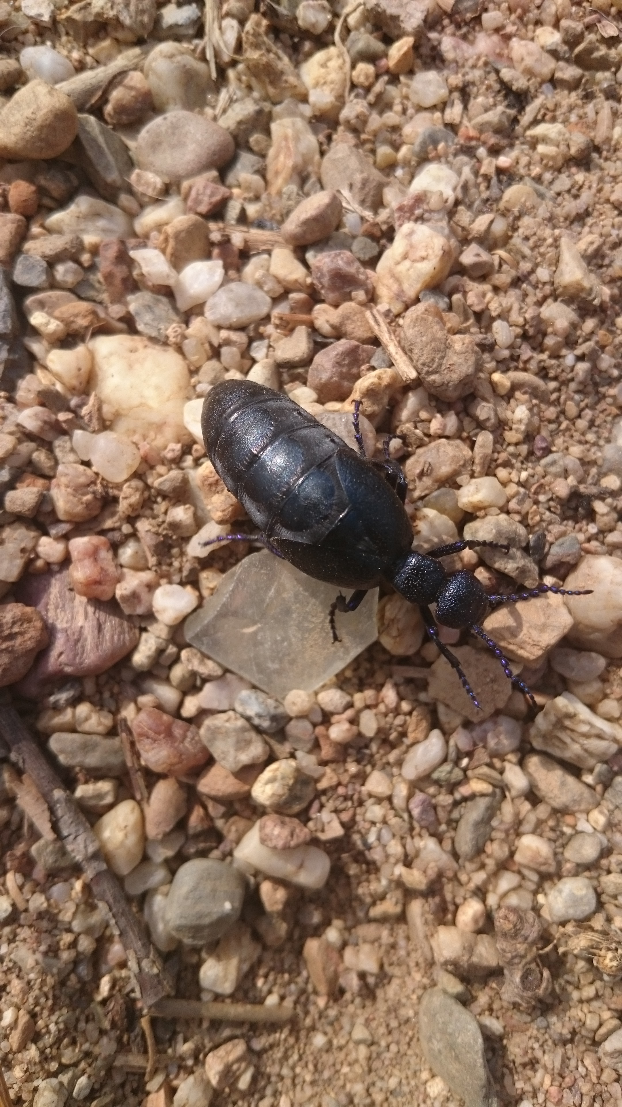 Meloe violaceus, the violet oil beetle